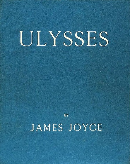 Picture of first edition of Joyce's Ulysses. Public Domain.